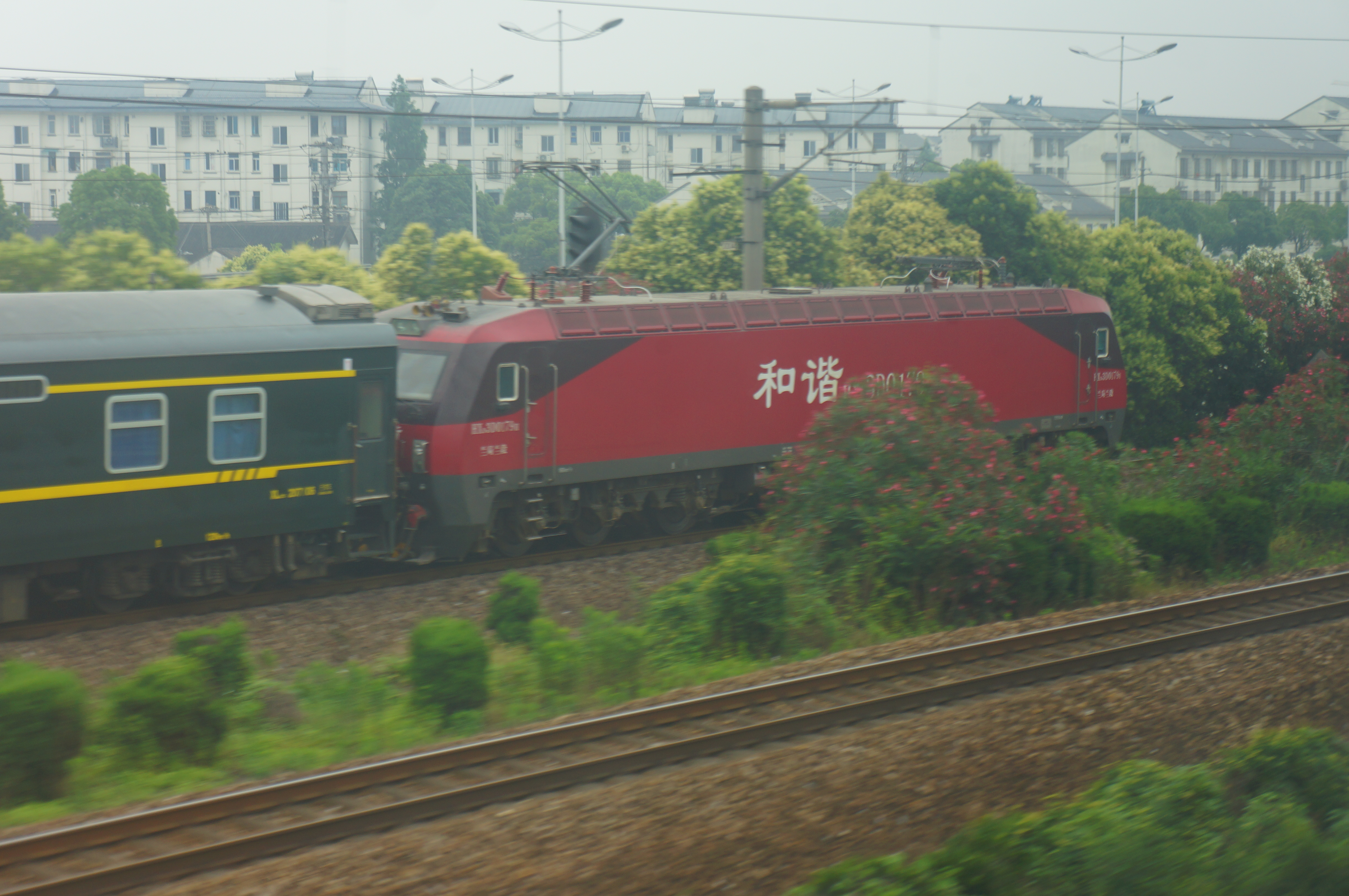 201706 HXD3D-0179 hauls K376 (Shanghai To Xining) in Suzhou